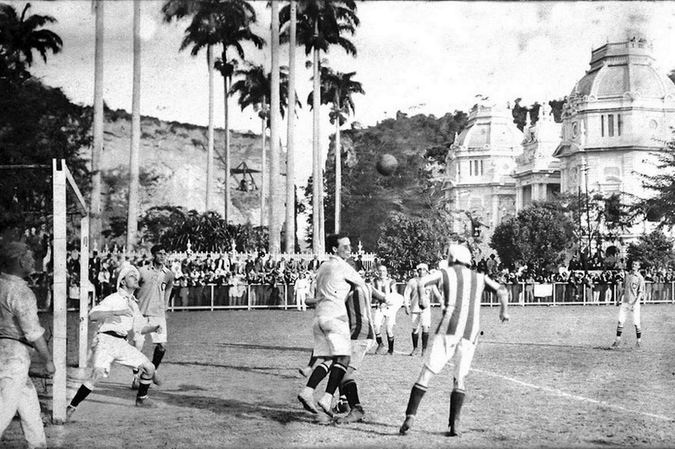 English team Exeter F.C., playing a match against a Brazilian combined at Rio de Janeiro during its tour on South America.